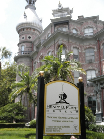 Sign in front of the Henry B. Plant Museum at the University of Tampa